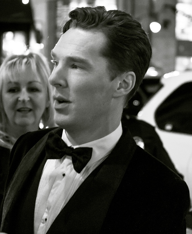 Benedict Cumberbatch at the Los Angeles premiere of The Hobbit: The Desolation of Smaug